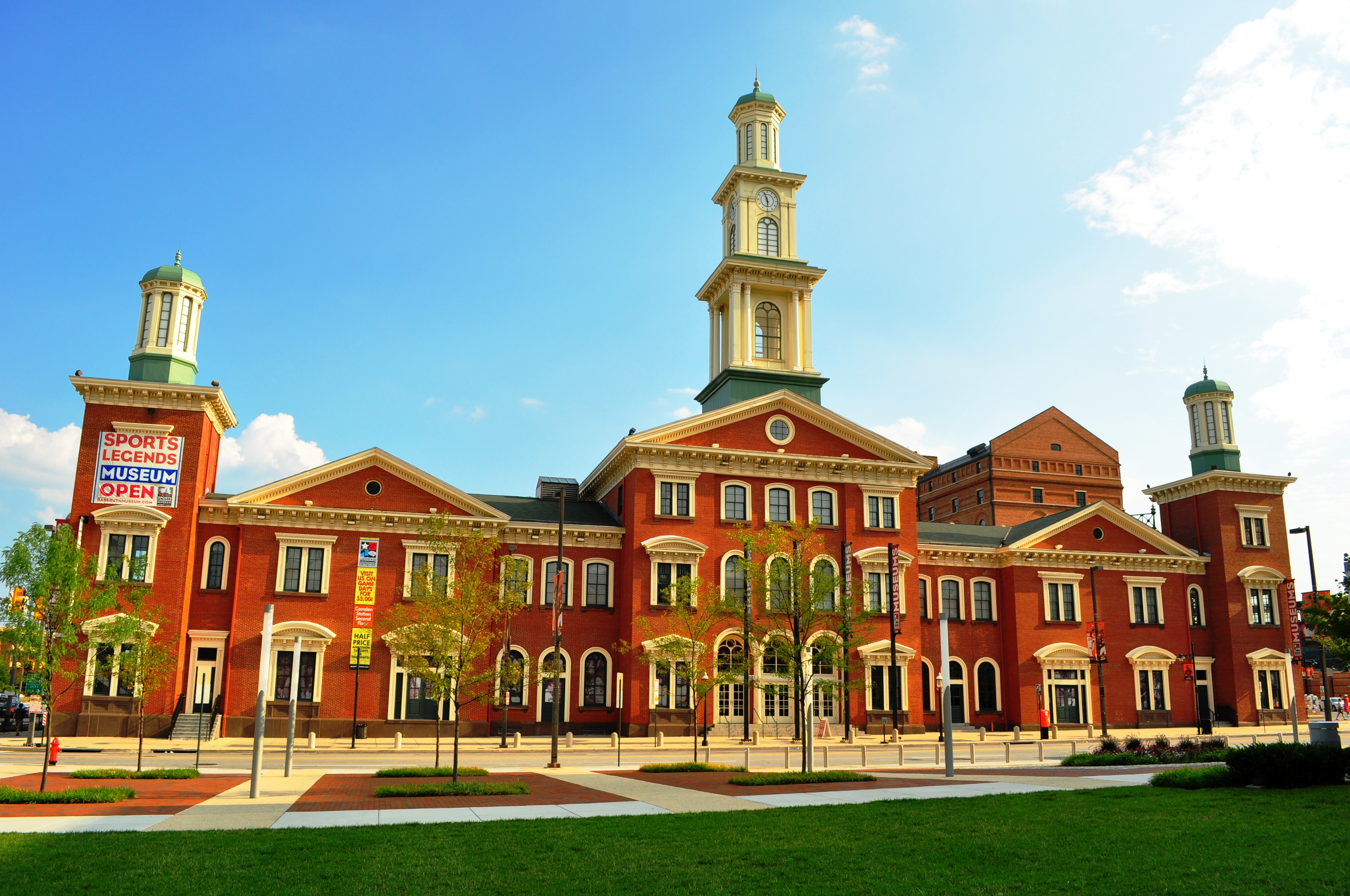 A photo of Sports Legends Museum Camden Yards